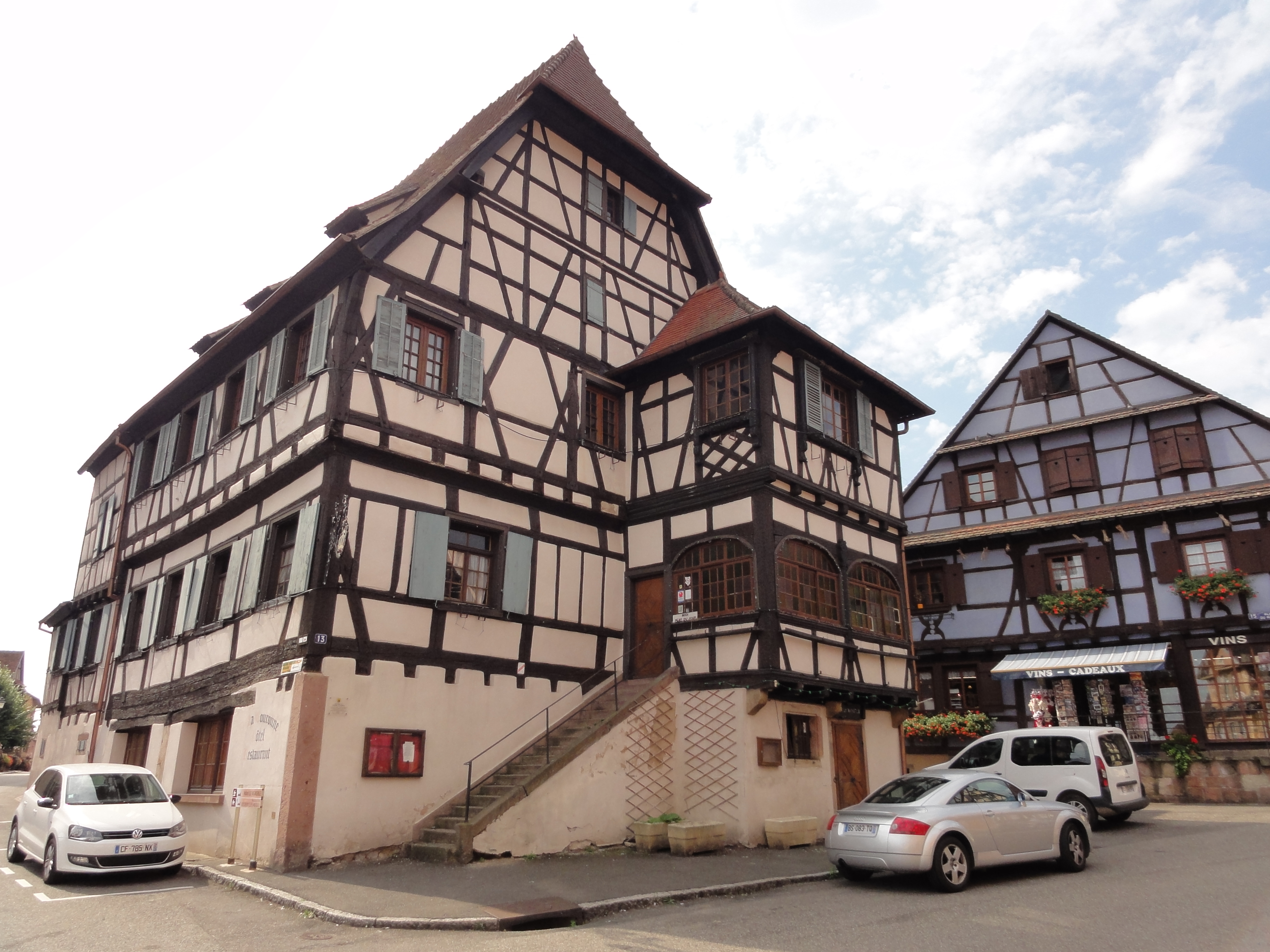 Alsace, Bas-Rhin, Dambach-la-Ville, Auberge de la Couronne (XVIe-XVIIe). It is indexed in the Base Mérimée, a database of architectural heritage maintained by the French Ministry of Culture, under the references PA00084674 and IA00115221.